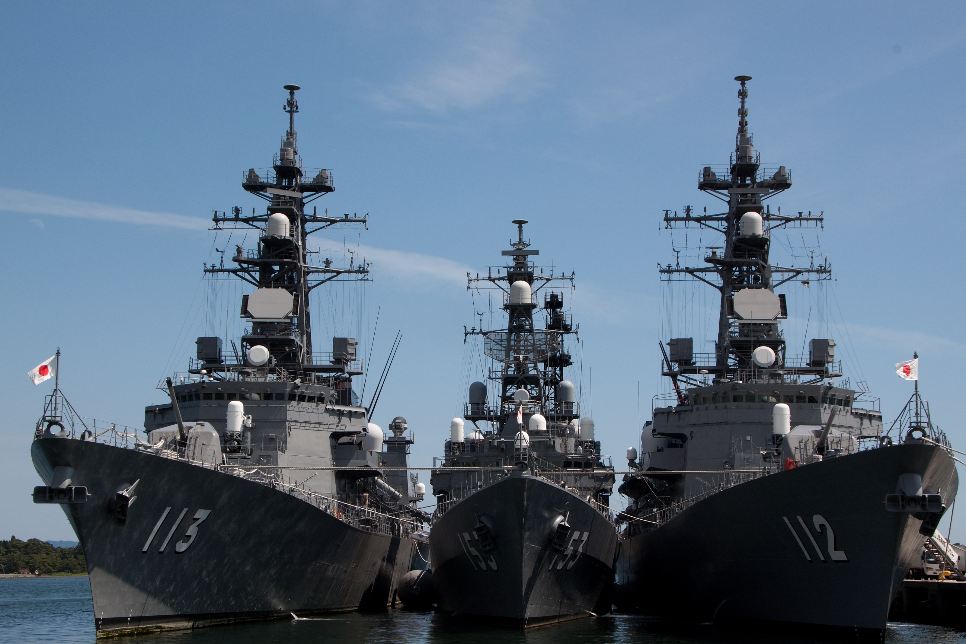 〔From left to right〕 JS Sazanami (DD-113), JS Yūgiri (DD-153) and JS Makinami (DD-112) moored at Pier 1, Ōminato.Canon EOS Kiss X3